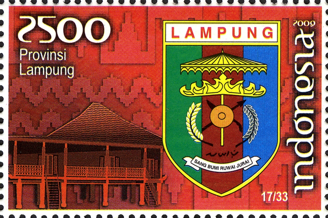 Stamps of Indonesia